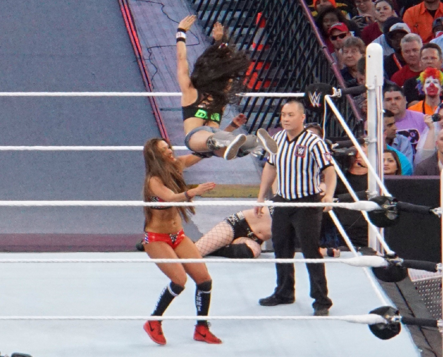 AJ Lee applying a Diving Cross body on Nikki Bella AT WrestleMania 31.